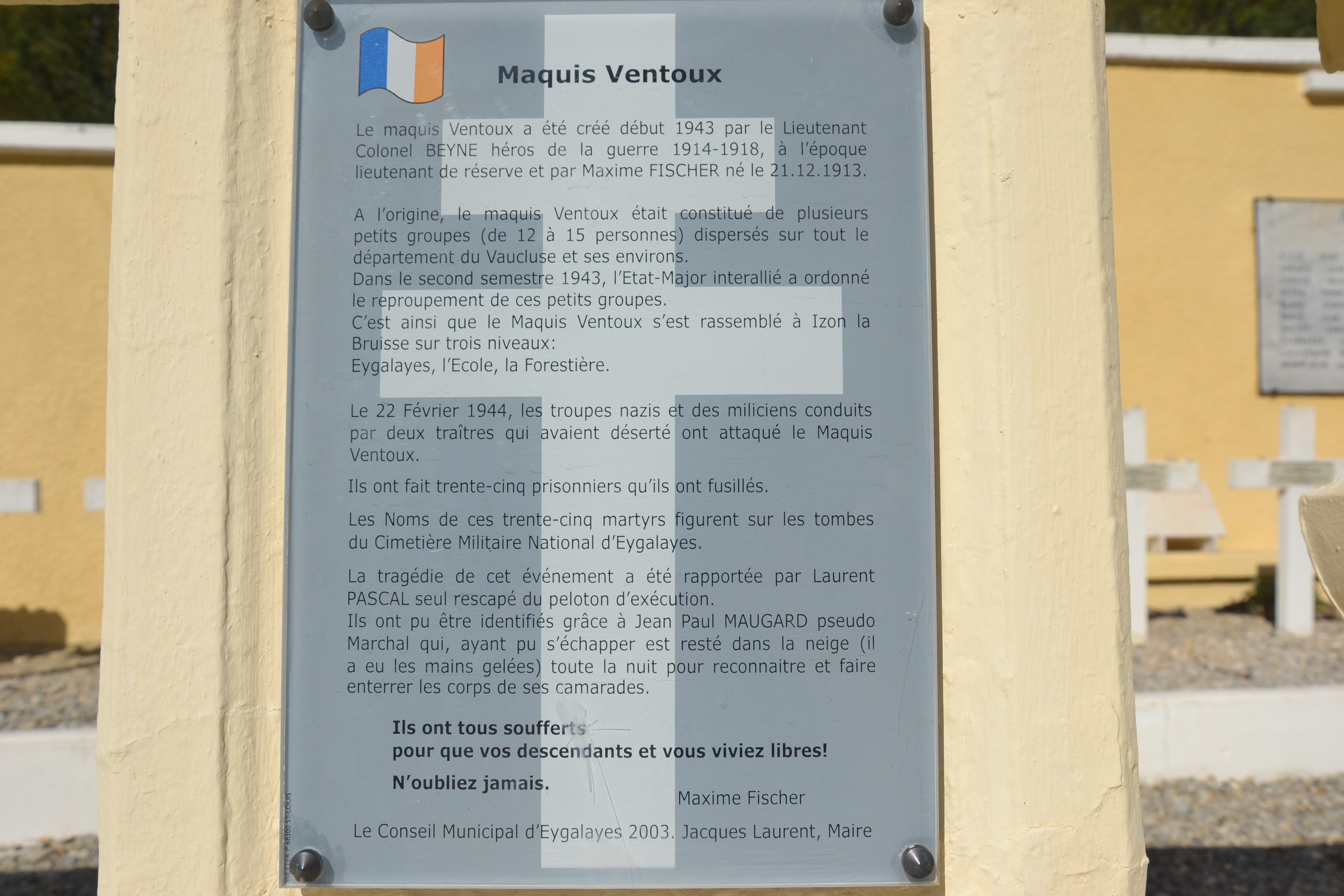 Eygalayes national cemetery in memory of guerrillas of Izon-la-Bruisse , shot August 22, 1944 by the Nazis.